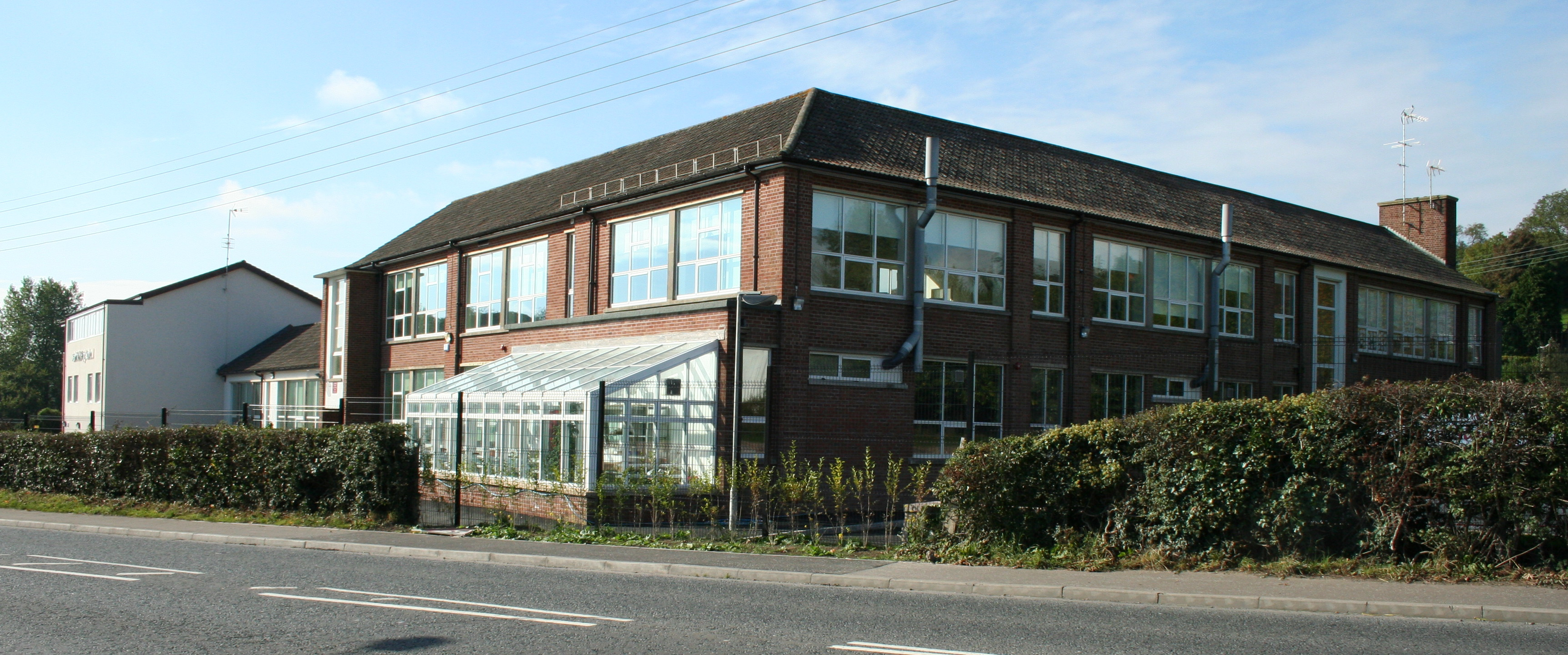 Saintfield High School Credit: A Peter Clarke image